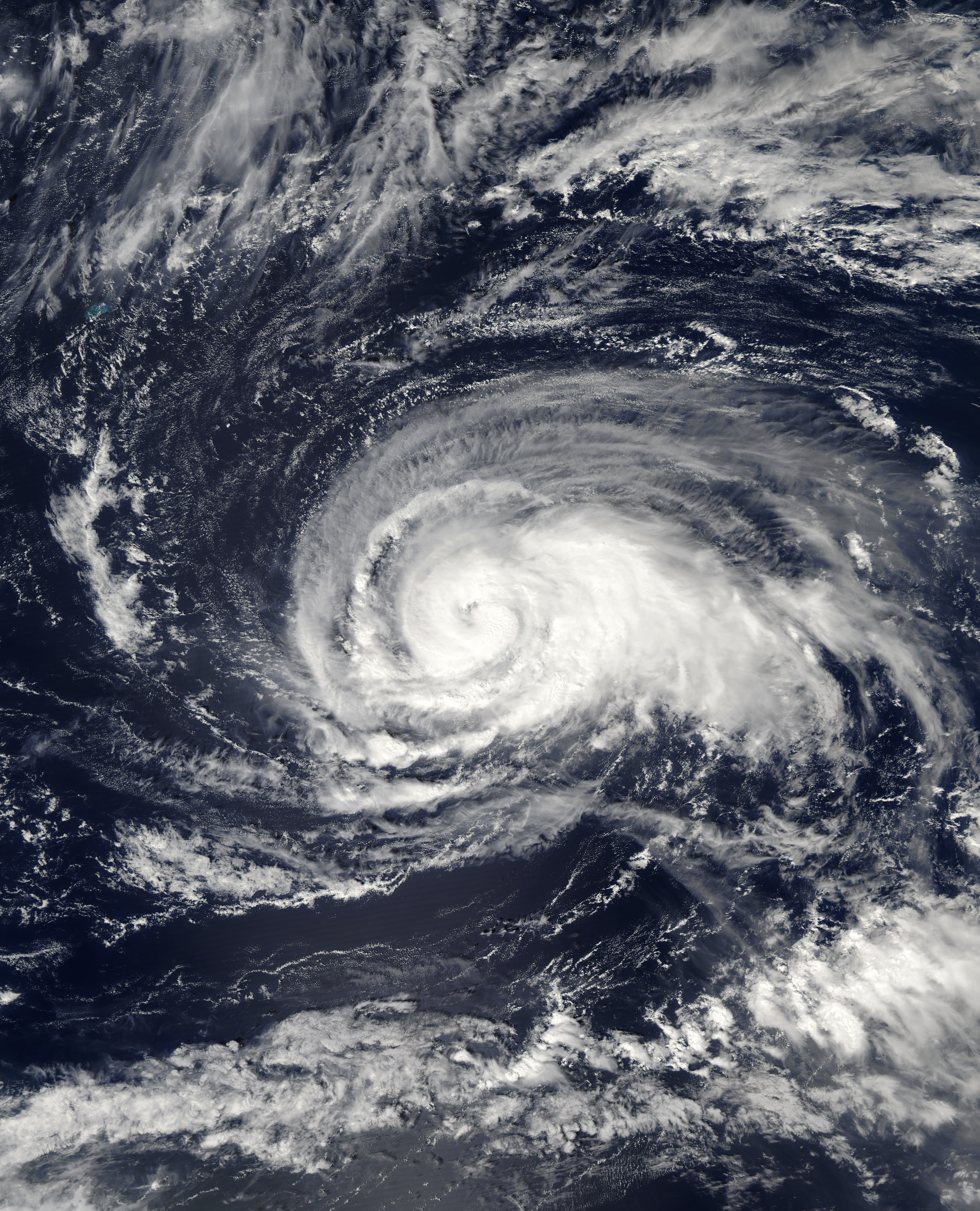 Hurricane Kyle at peak intensity in the central Atlantic Ocean on September 26, 2002.